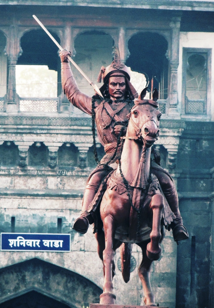 Equestrian statue of Baji Rao I outside the Shaniwar Wada fortress in Pune, India